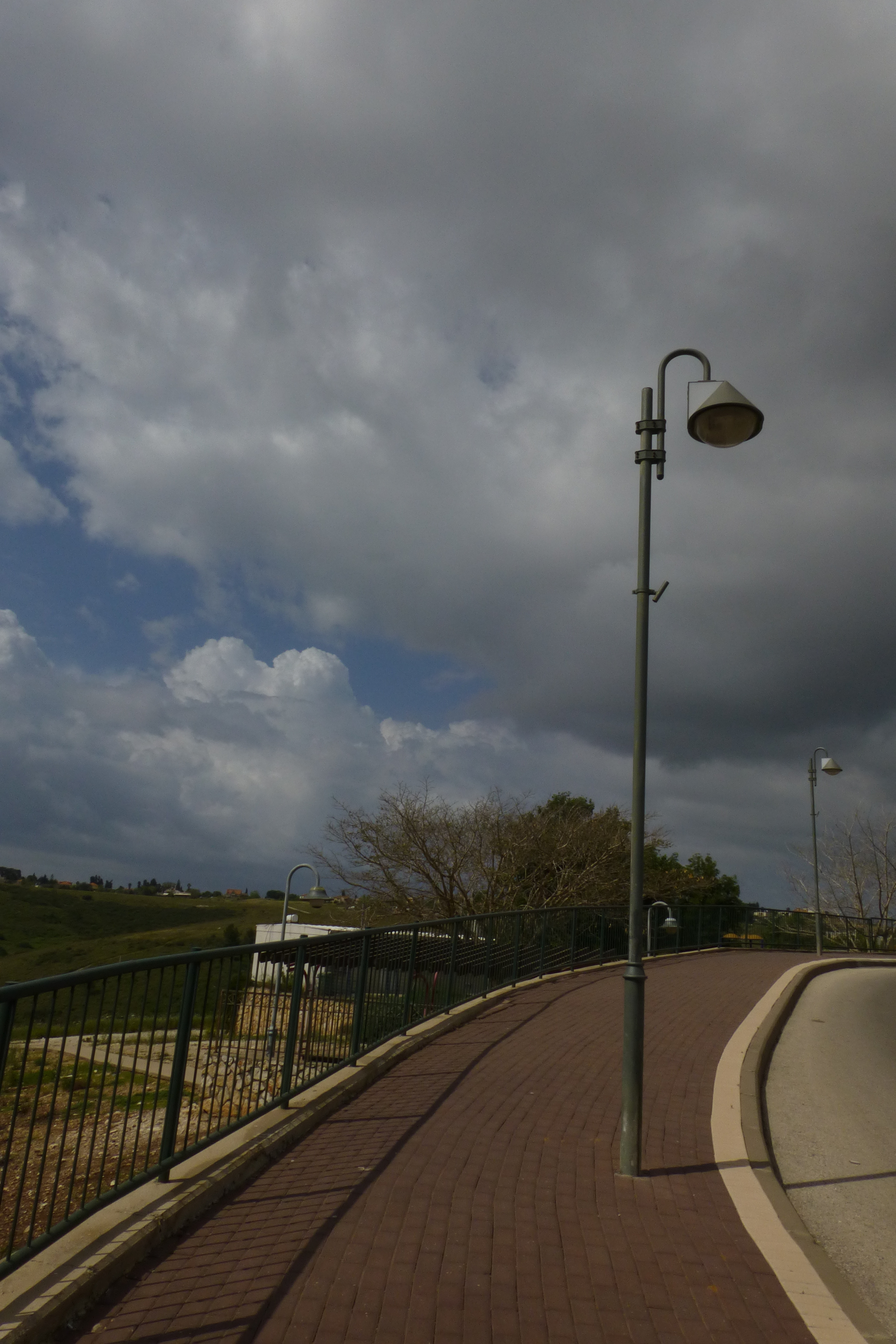 Yokneam